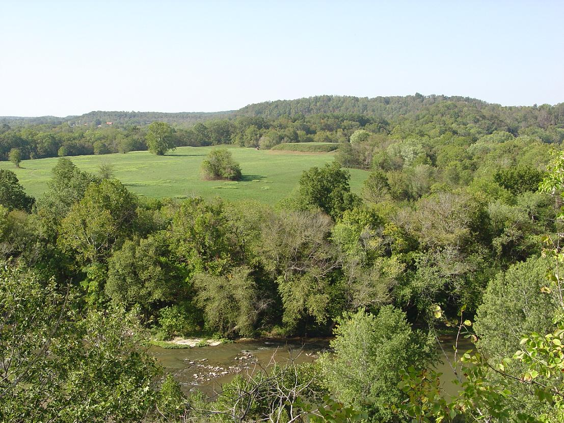 View of the main plaza at the Mound Bottom archaeological site, Cheatham County, Tennessee